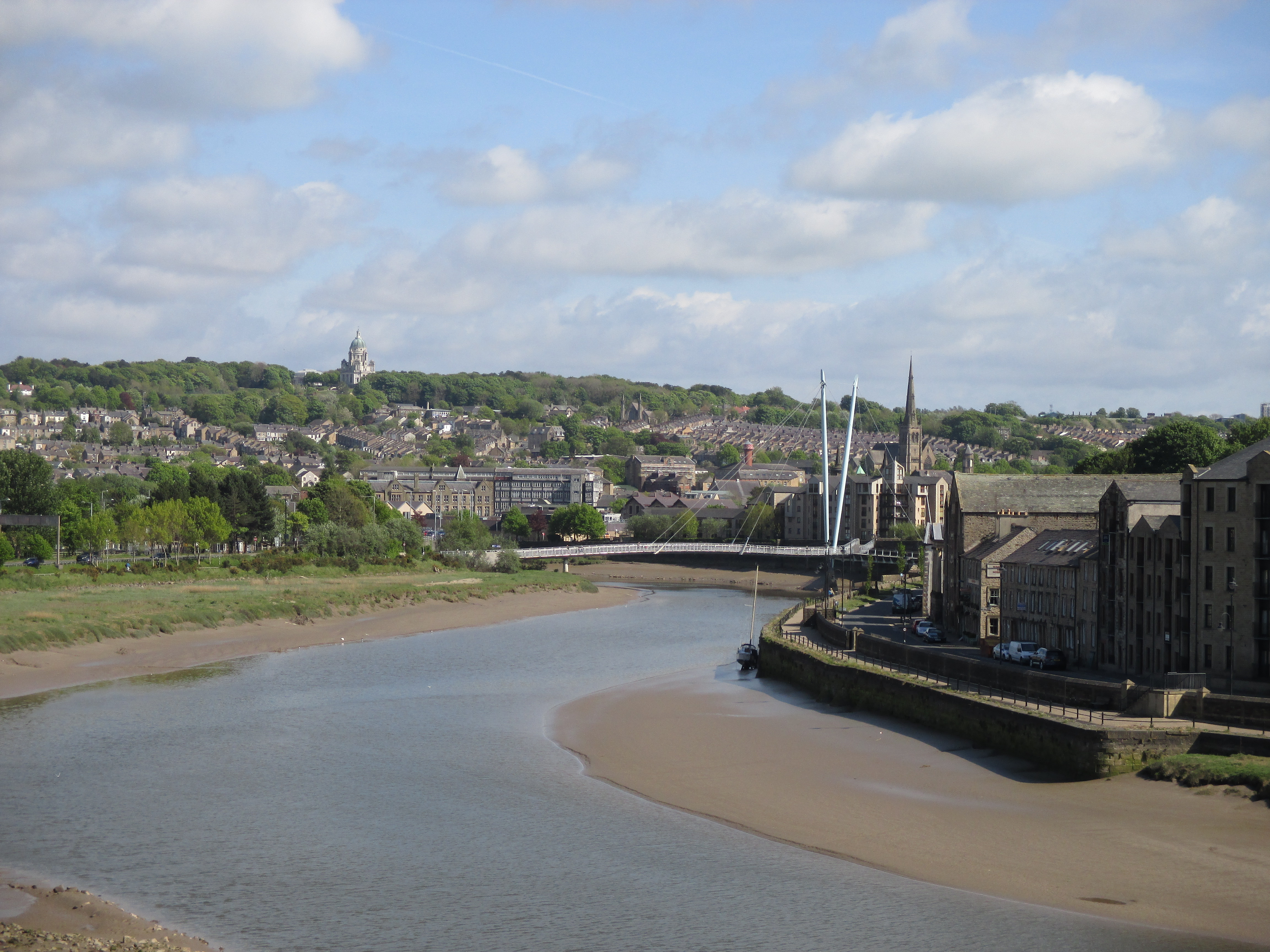 The view eastward from Carlisle Bridge over the River Lune and Lancaster. Prominent are the Ashron Memorial (on the horizon), the Millennium Bridge, and the spire of Lancaster Cathedral.